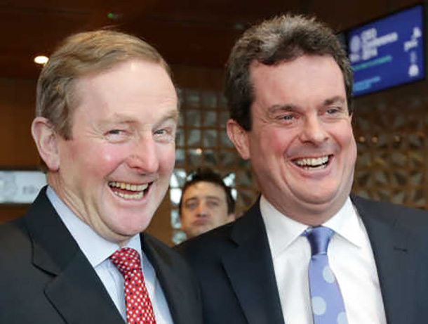 Feargal O'Rourke and Irish Taoiseach Enda Kenny at a Conference in 2014